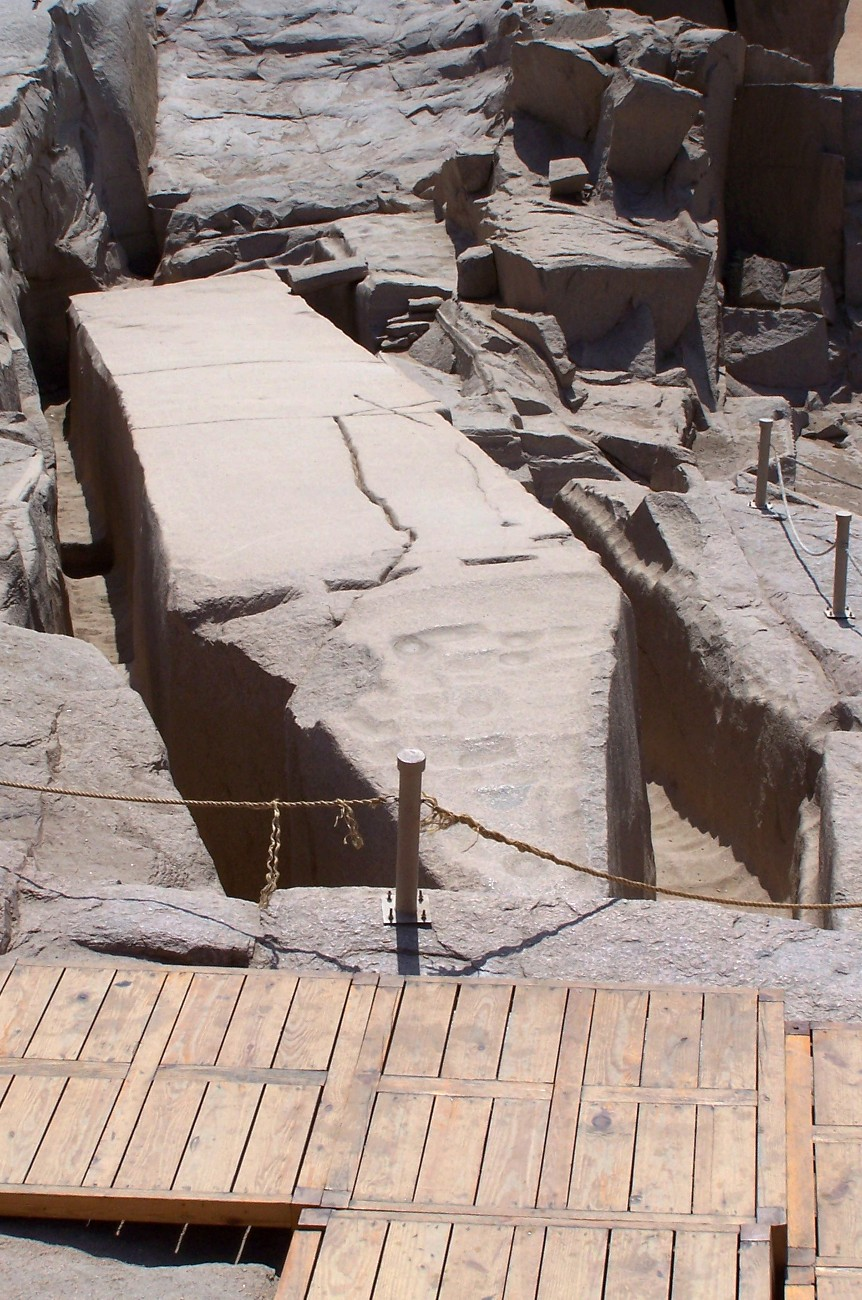 Unfinished Obelisk in Aswan, Egypt.